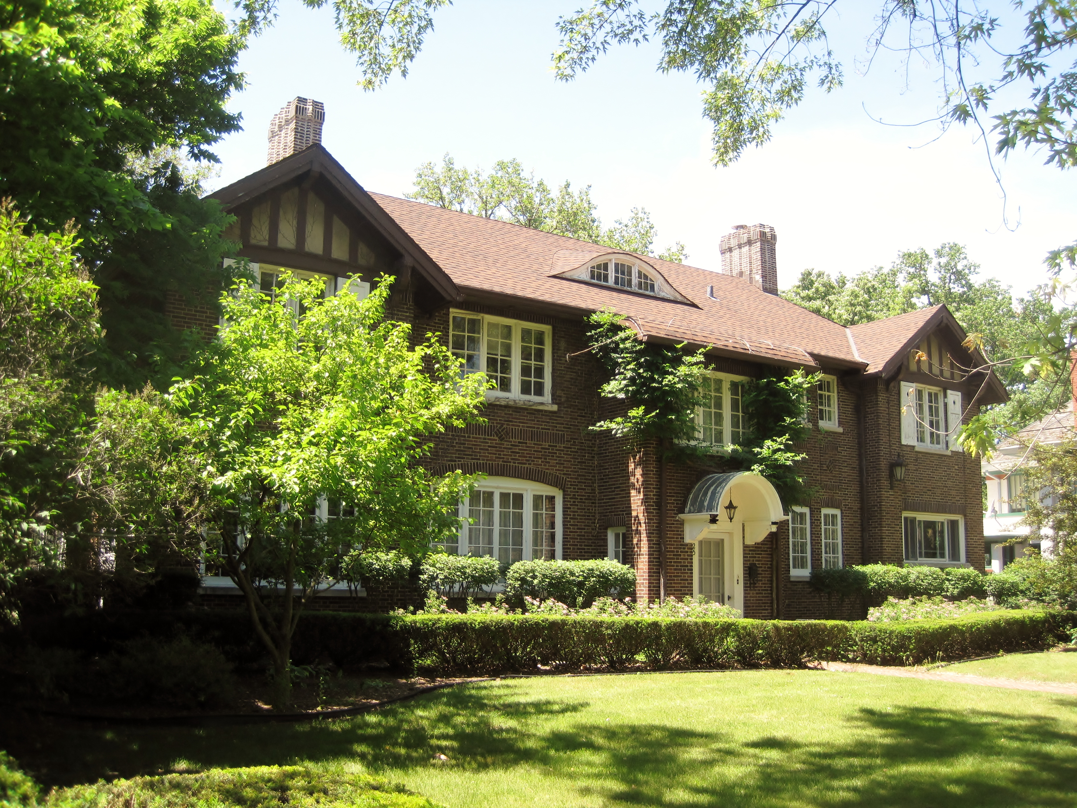 The Drs. John and Violet Brown House, part of the Riverview Historic District in Kankakee (1917). It is based on a Tudor house that the Browns saw while on a trip to England. Violet Brown worked at the nearby Illinois Eastern Hospital for the Insane, while John was a general practitioner. Violet was also a suffrage advocate. Olivet Nazarene College later purchased the house intended to use it as the home of their president.